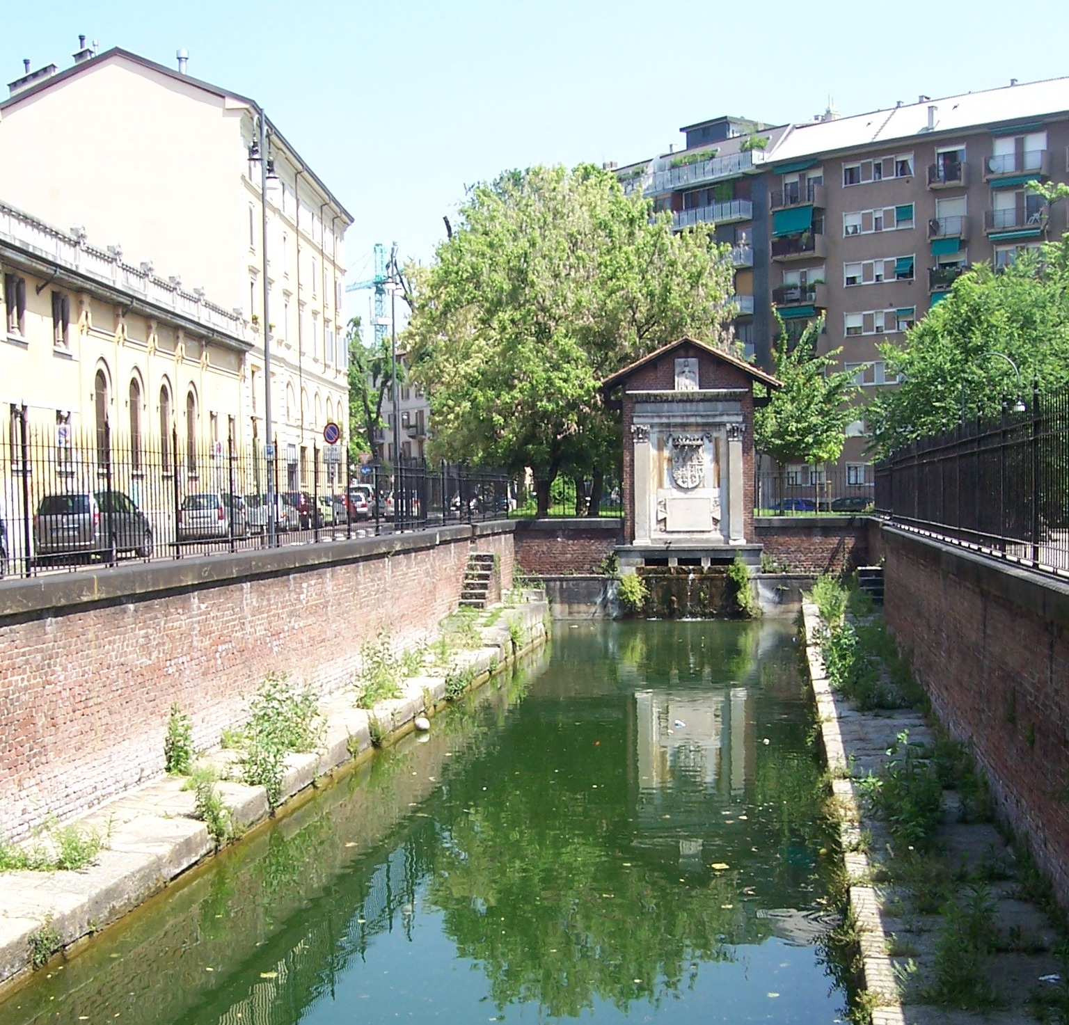 Il bacino della Conca di Viarenna Mondo dov'era; é Stata La Prima e al collegava Il Naviglio Grande Alla fossa interna. Fu costruita NEL 1439, 13 Anni prima della Nascita di Leonardo da Vinci